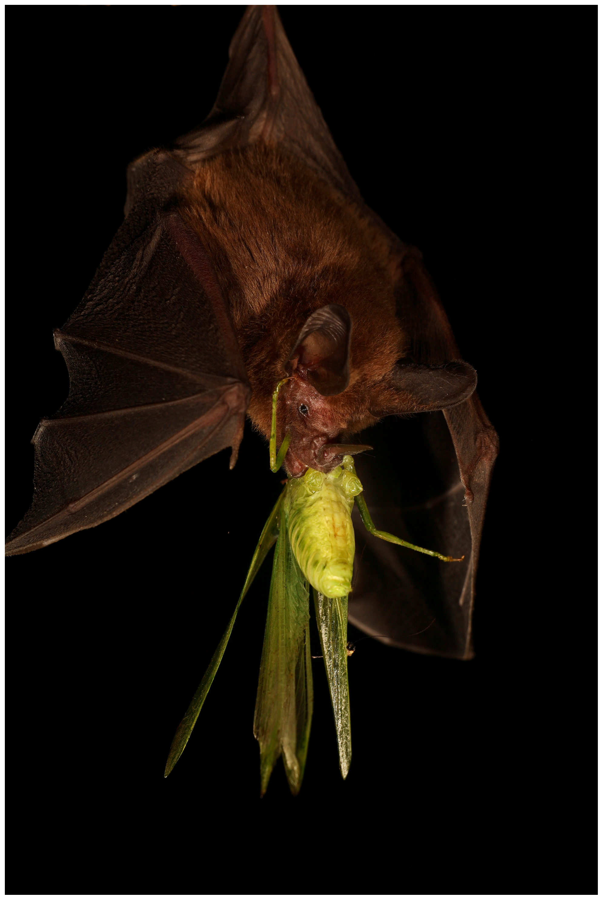 Micronycteris microtis consuming a katydid. This image illustrates the relatively large size of some prey items included in the diet of this bat (Photo by Christian Ziegler).